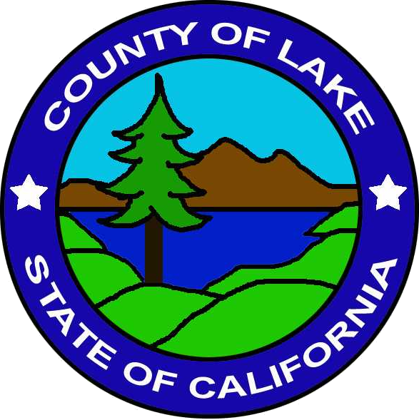 Seal of Lake County, California